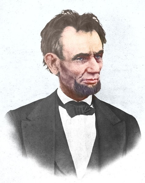 Last high-quality photograph of President Lincoln, recoloured